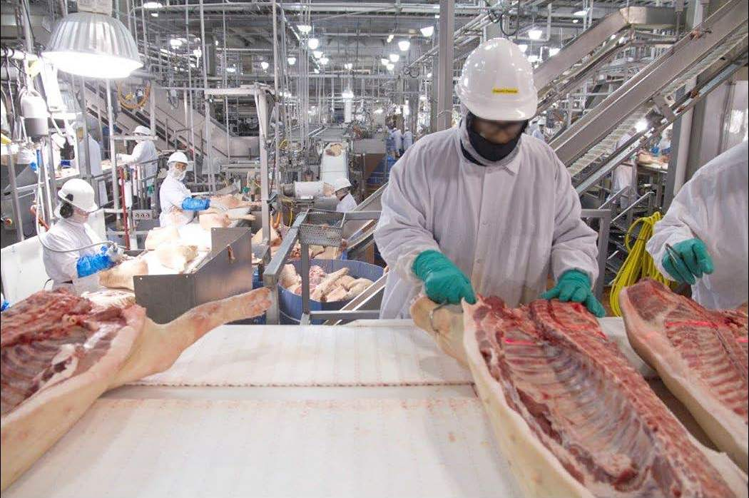 This image is excerpted from a U.S. GAO report: WORKPLACE SAFETY AND HEALTH: Additional Data Needed to Address Continued Hazards in the Meat and Poultry Industry